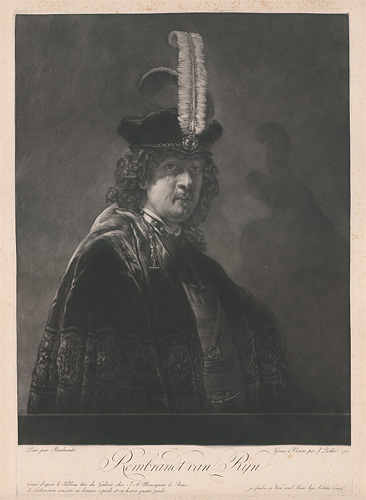 Rembrandt self-portrait engraved by Pichler